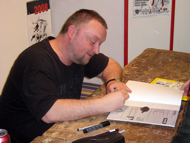 Tomaž Lavrič in Ljubljana at the promotion of Croatian edition of comic album "Glista u bijegu" (La Cavale de Lézard), 2008.